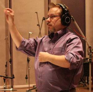 Conductor Daniel Hughes at Skywalker Sound in Marin County, California.